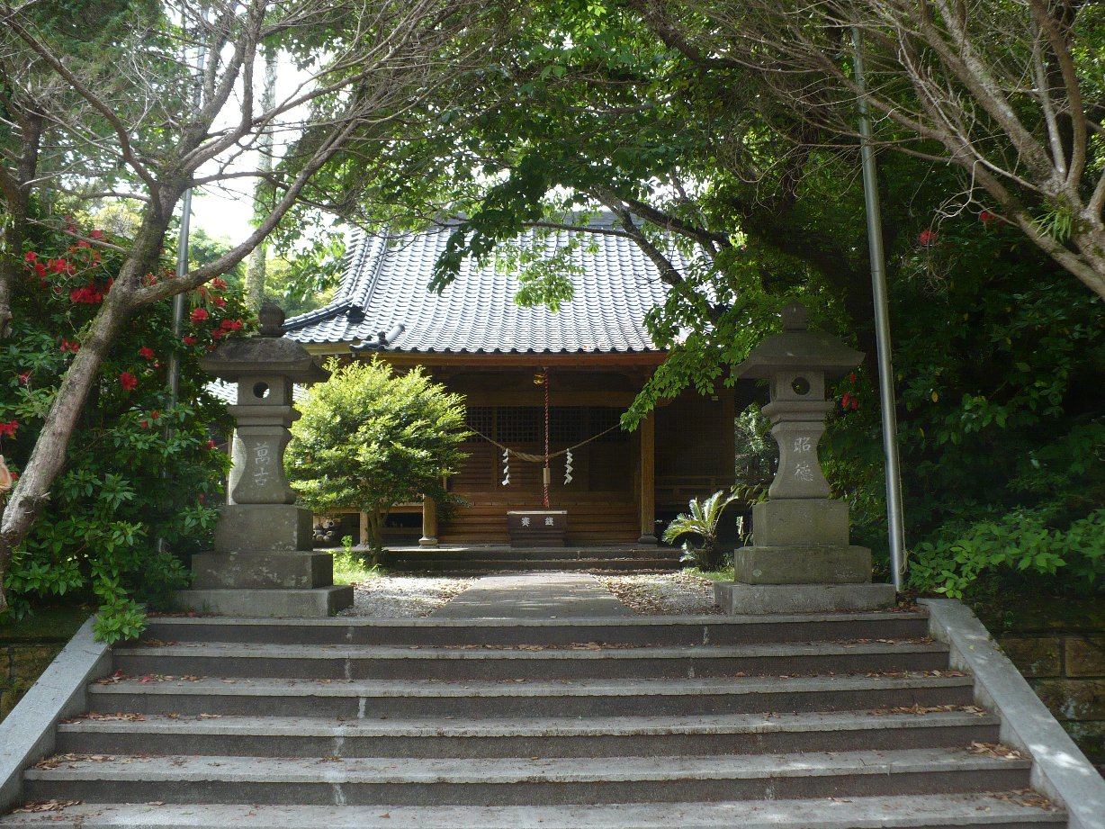 Main shrine of Tokko shrine, Yamagawa-Okachogamizu, Ibusuki, Kagoshima, Japan.